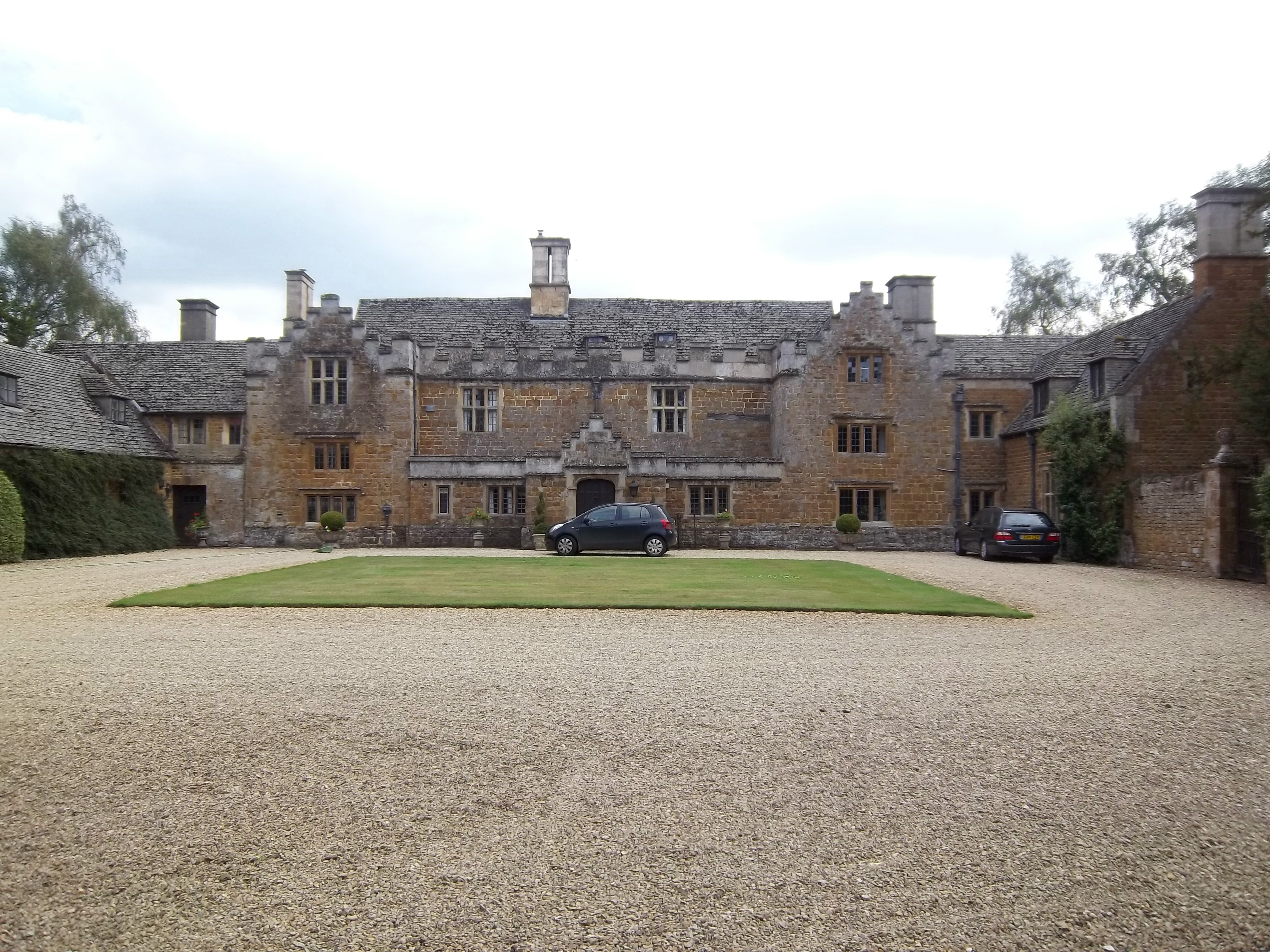 Nether Worton House, Nether Worton, Oxfordshire